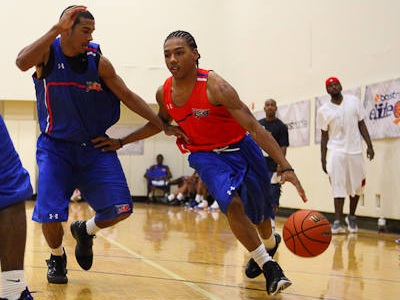 Phil Pressey driving at the August 2009 Elite 24 Training event